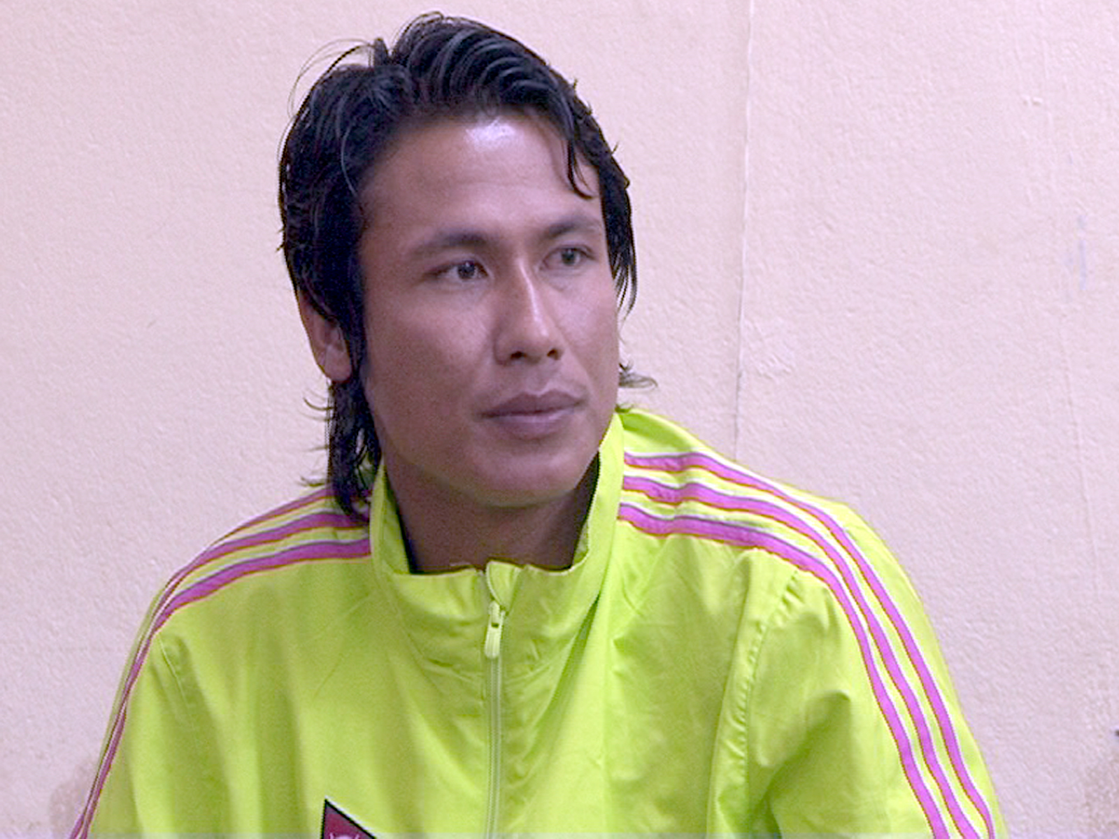 Nepali football player.